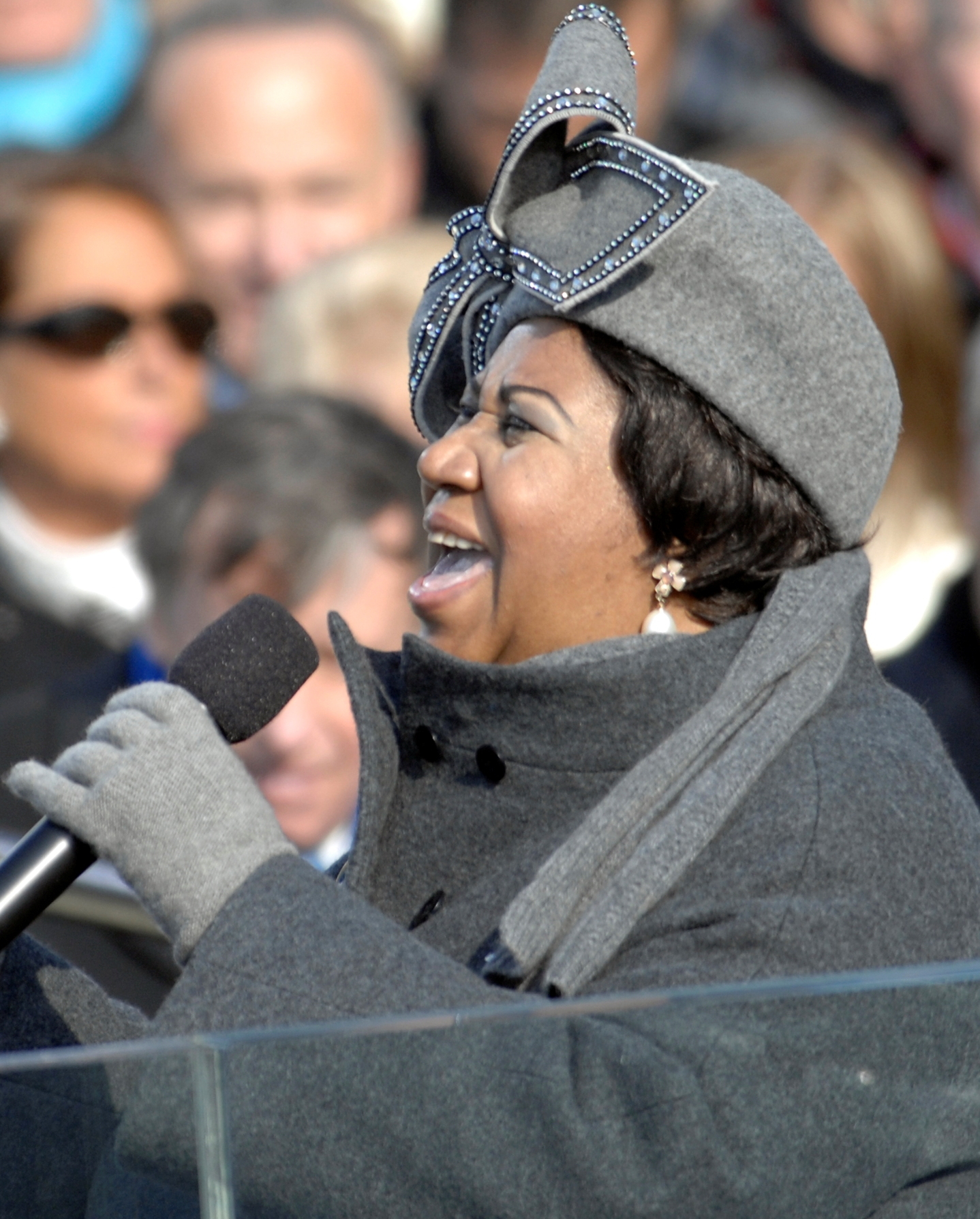 Aretha Franklin sings "My Country 'Tis Of Thee'" at the U.S. Capitol during the 56th presidential inauguration in Washington, D.C., Jan. 20, 2009.